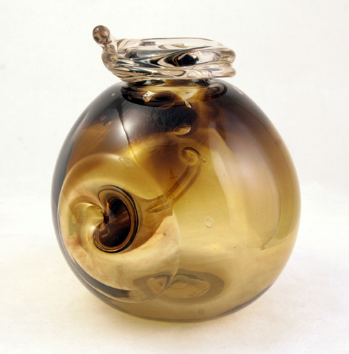 Vintage abstract blown glass vessel by California artist and teacher Dr. Robert Fritz, one of the father of the founding fathers of the mid 20th century studio glass movement.